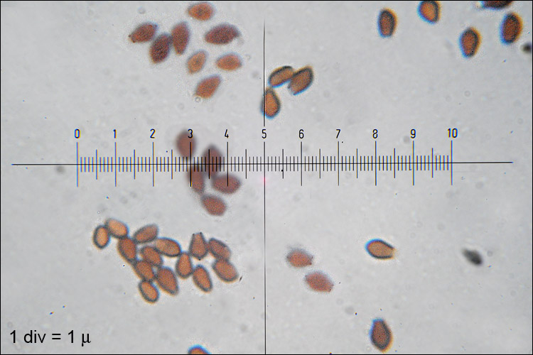 The spores of a Coprinellus species. Mushroom specimens from which the spores were obtained were collected form Bovec basin, East Julian Alps, Posočje, Slovenia.